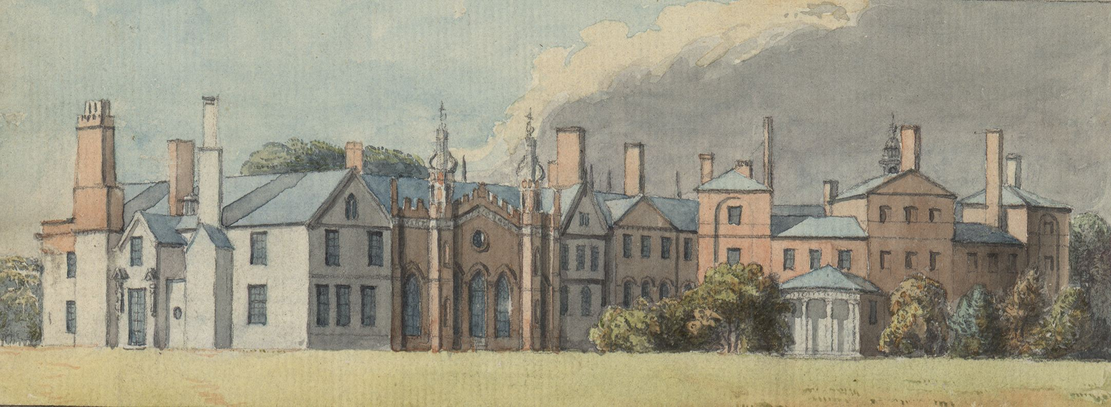 An image from a set of 8 extra-illustrated volumes of A tour in Wales by Thomas Pennant (1726-1798) that chronicle the three journeys he made through Wales between 1773 and 1776. These volumes are unique because they were compiled for Pennant's own library at Downing. This edition was produced in 1781. The volumes include a number of original drawings by Moses Griffiths, Ingleby and other well known artists of the period. Thomas Pennant (1726-1798)